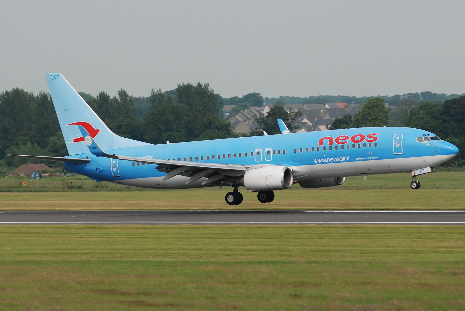 Neos Boeing 737-800 I-NEOT at Edinburg Airport